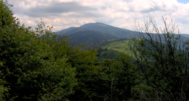 Looking east from the summit of Silers Bald (el. 5,607 feet/1,709 meters) in the Great Smoky Mountains. Clingman's Dome rises in the distance. The Appalachian Trail follows the ridge in the foreground.